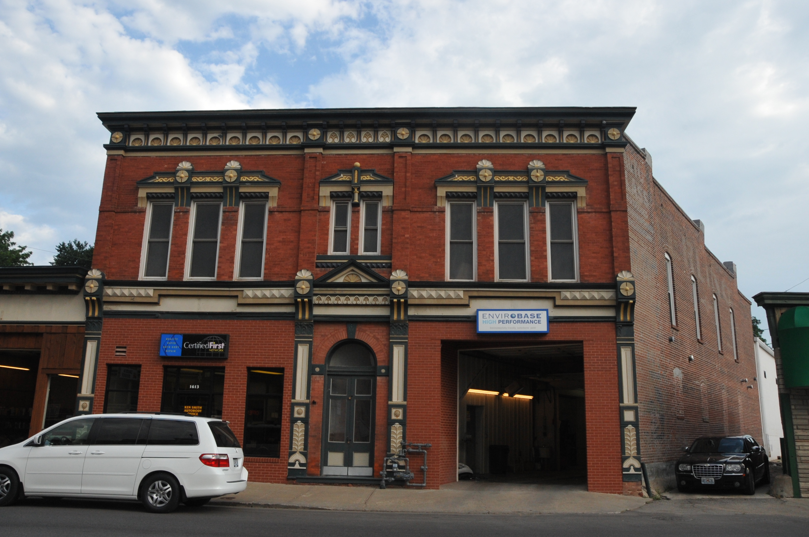 1889; ALSO KNOWN AS AMERICAN-GERTSCH GLASS, INC,; VICTORIAN